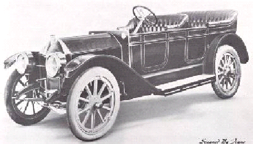 1912 Chevrolet Classic Six